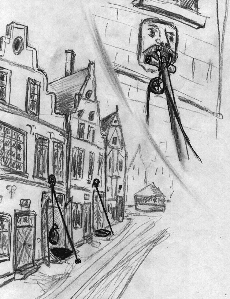 "Grinkopf" application: The head had metal teeth, under a bar could be fitted with a pulley, and so one could hoist heavy things into the basement. Those heads can be found on Cologne houses in Germany.